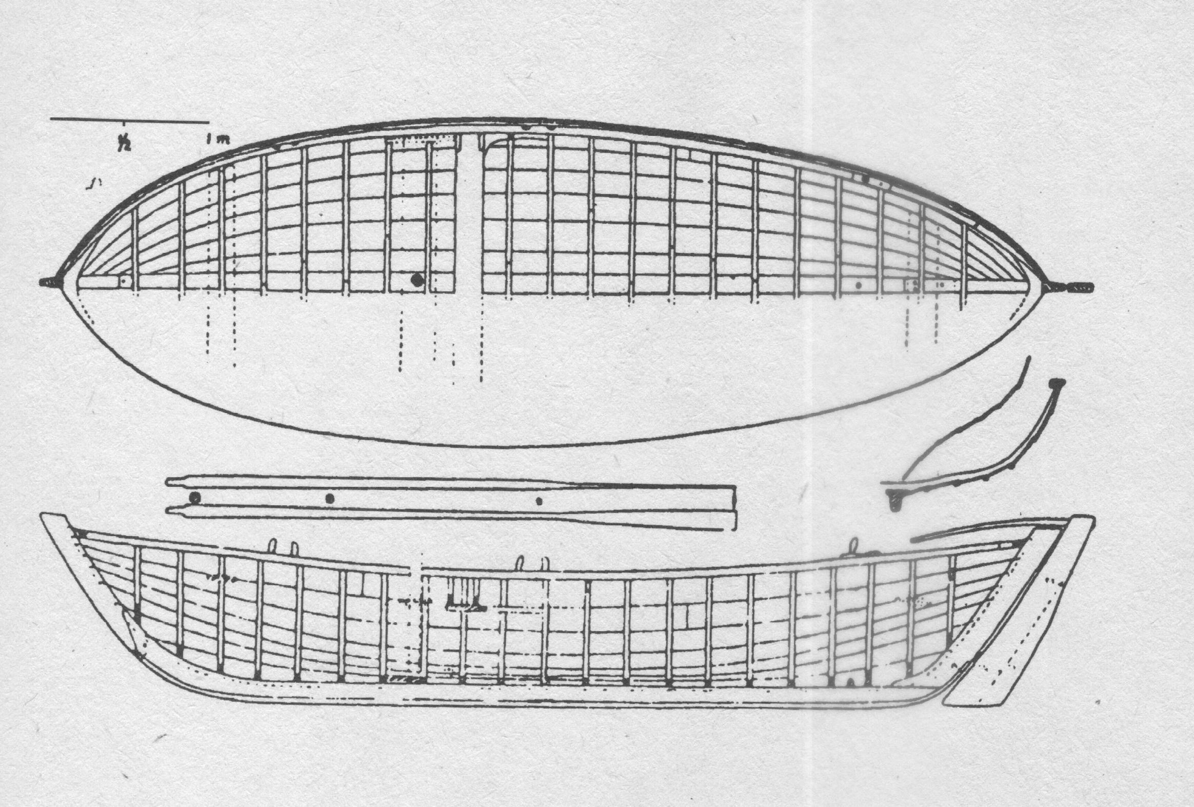 A small peasant boat used for fishing by resident locals of Hogland